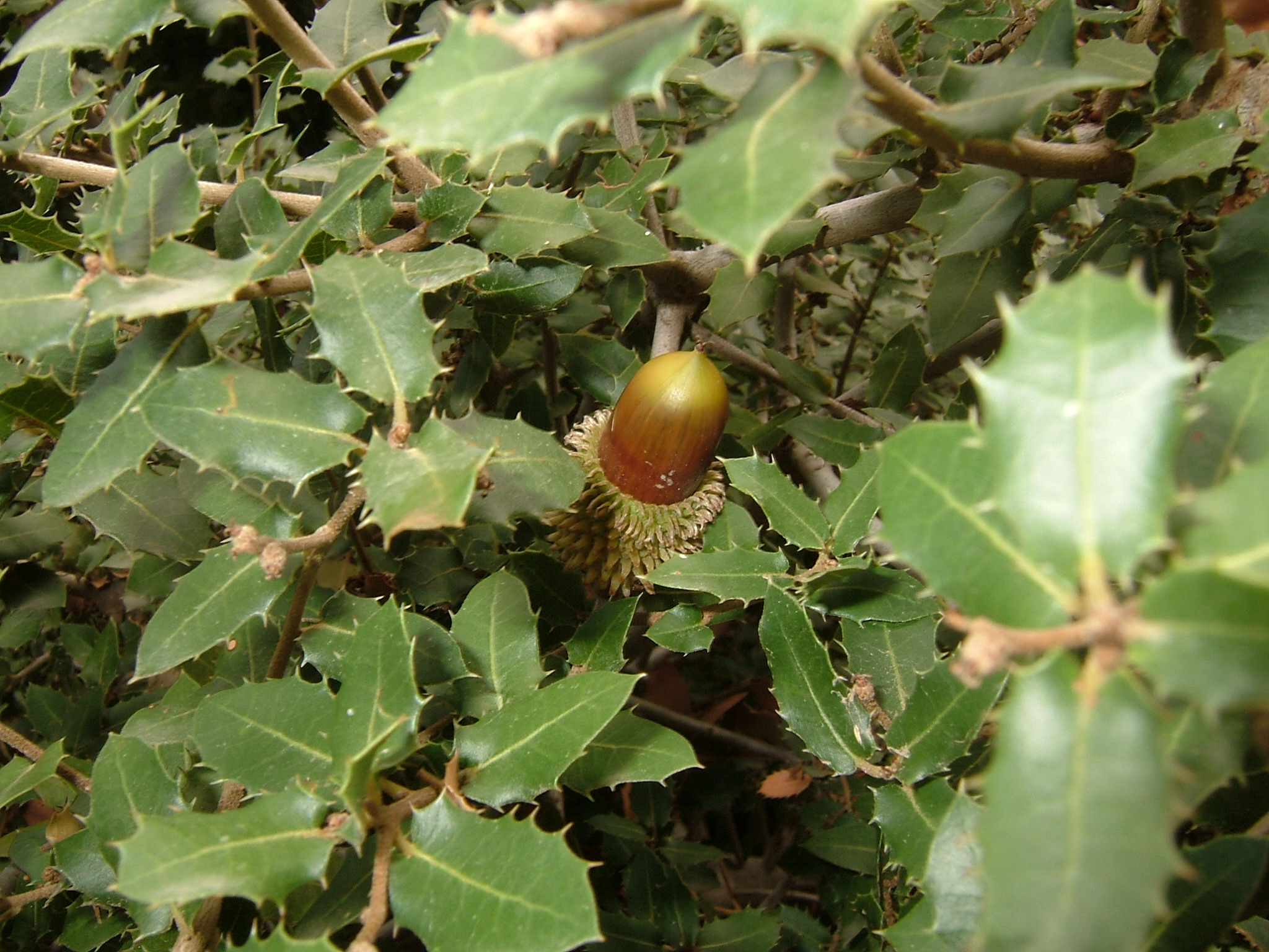 Quercus coccifera